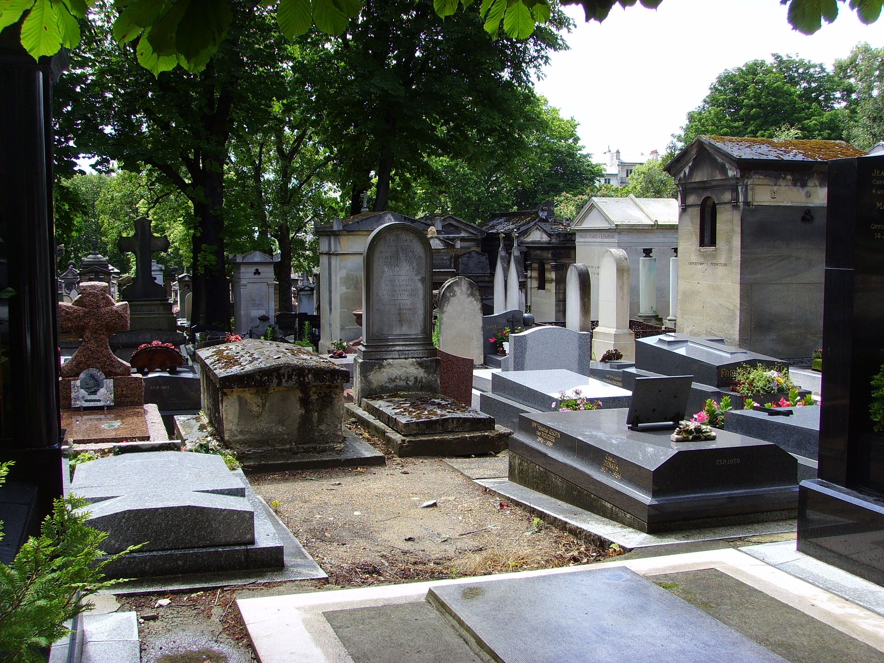 Pere Lachaise Cemetery, Paris